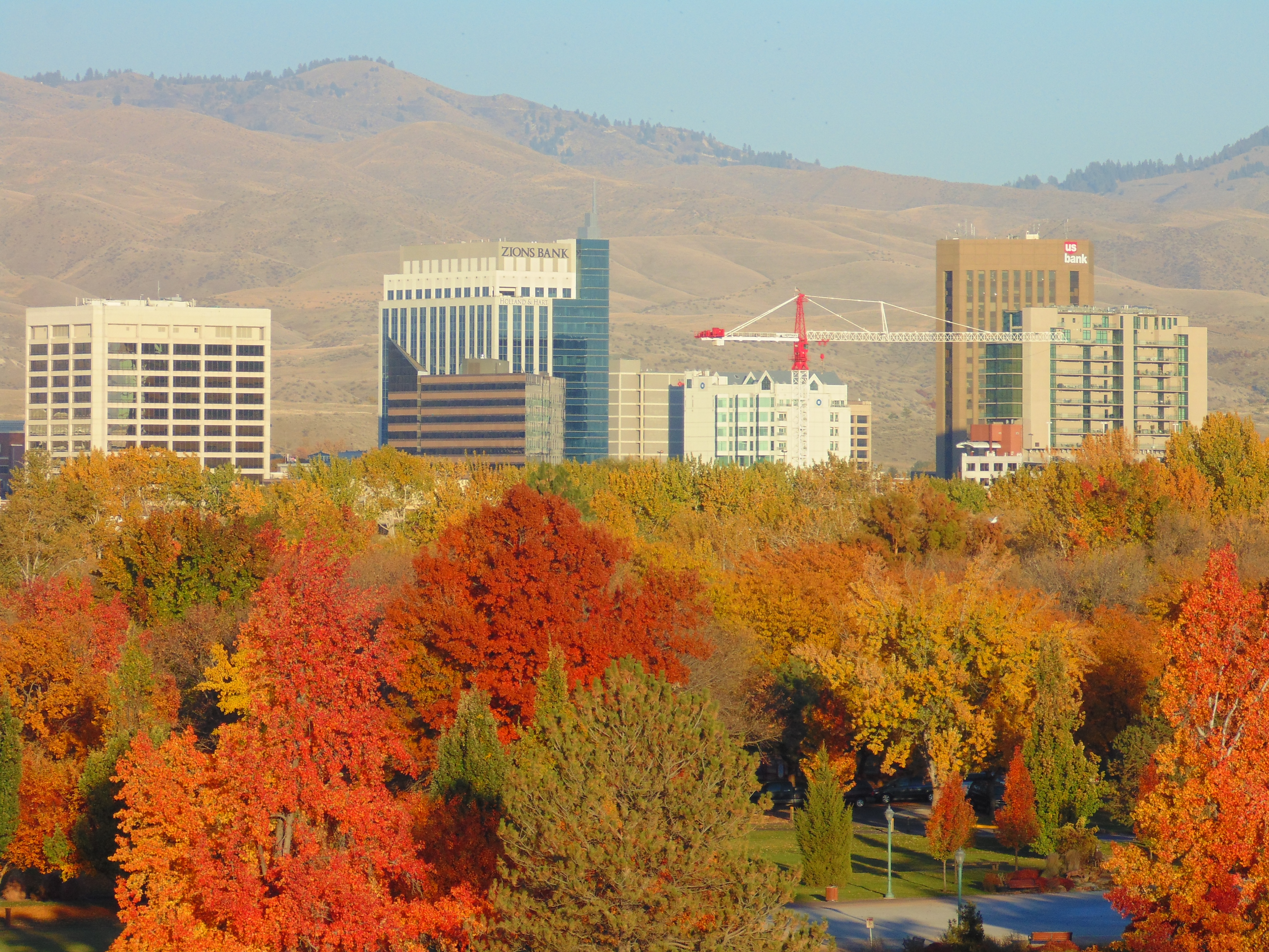 Taken from Ann Morrison Park in Boise; 2013.